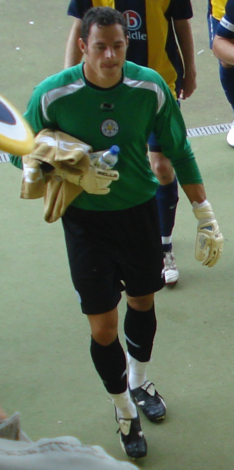 Image of Chris Weale